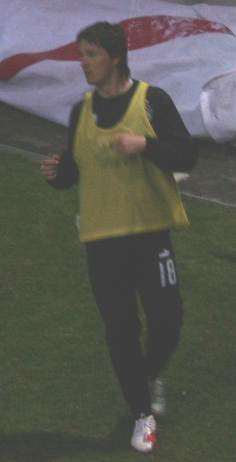 Tamás Györök in Zalaegerszeg.